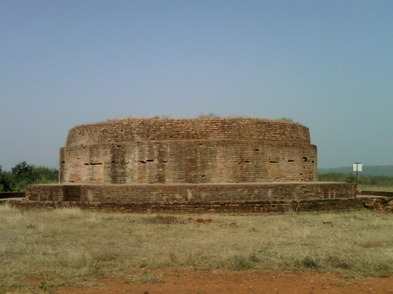 Mahastupa at Bavikonda Buddhist Complex near Visakhapatnam of Andhra pradesh